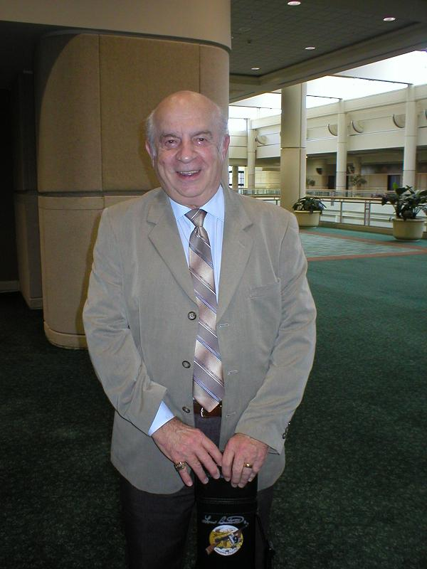 Lou Butera